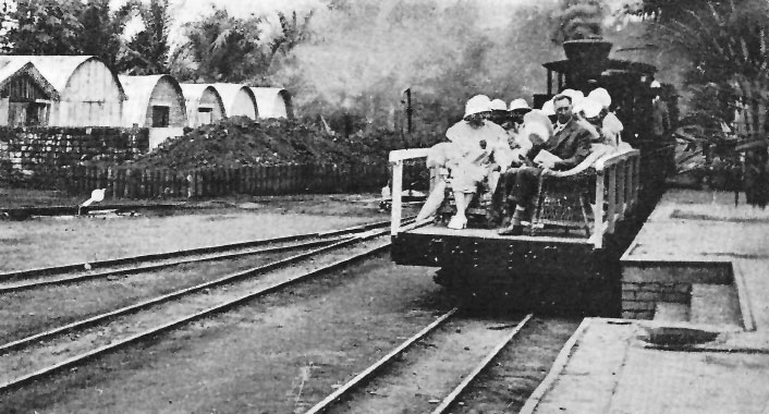 King Albert of Belgium on one of the first trains of the Belgian Congo during his visit in 1909